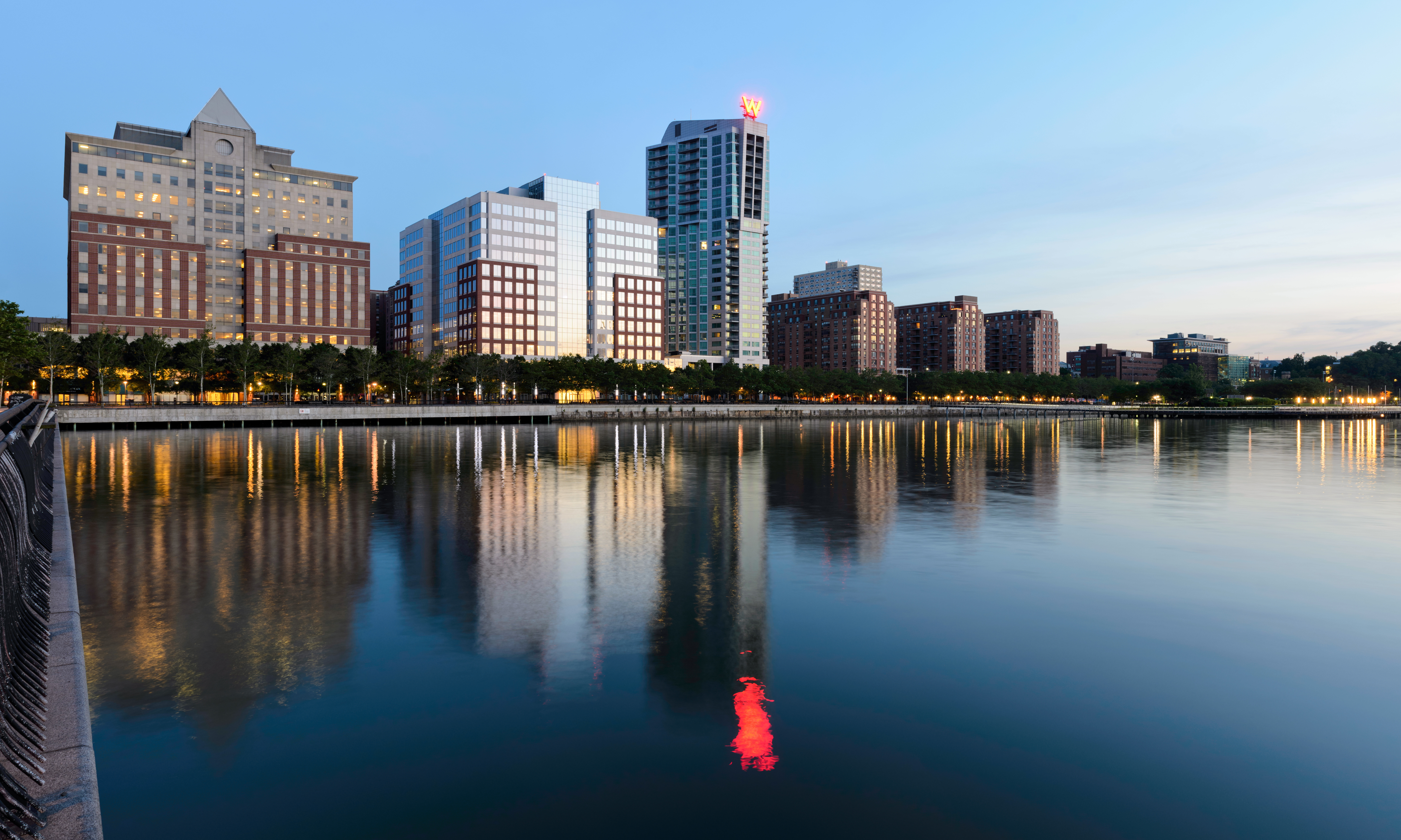 Three-segment panorama of Sinatra Drive waterfront from Pier A Park, Hoboken, New Jersey.